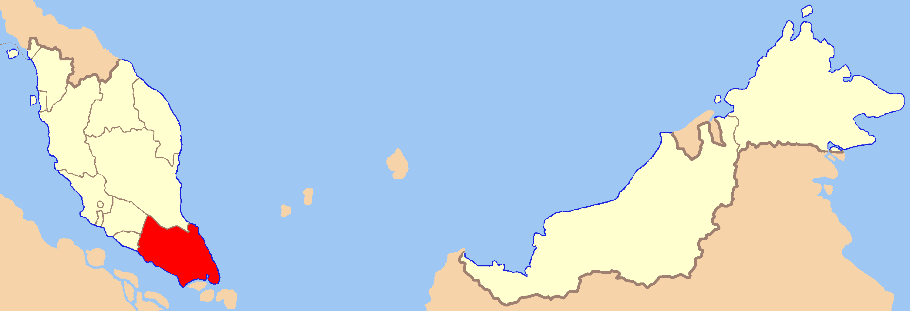 Map of Malaysia with Johor highlighted